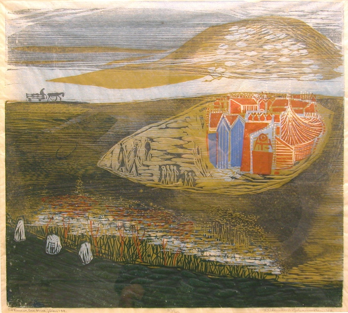 Photo of the woodprint "City of Myth" made by the Norwegian artist Carl Frithjof Tidemand-Johannessen in 1949. Carl Frithjof Tidemand-Johannessen died in 1958, and according to Norwegian law (Åndsverksloven) this artwork will usually be protected until 70 years after the death year of the creator.